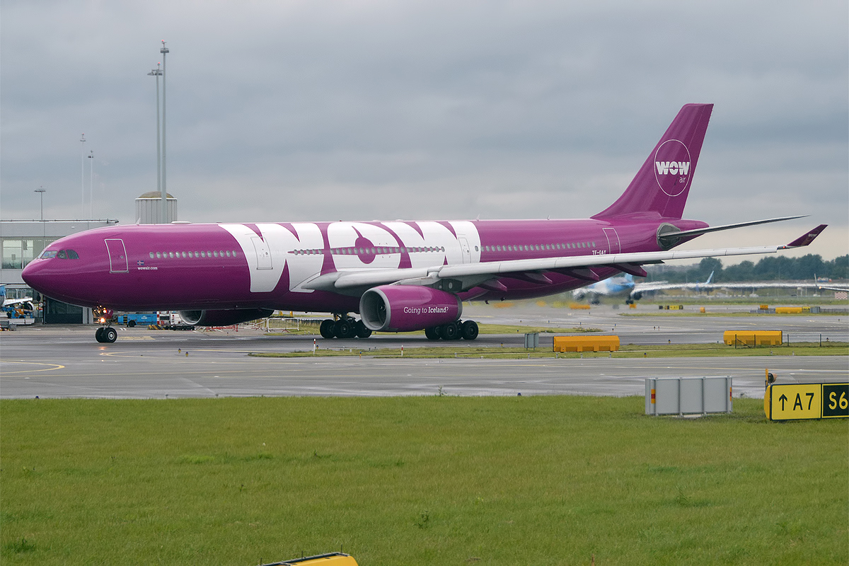 WOW air A330-300 registered TF-GAY at Amsterdam Airport Schipol